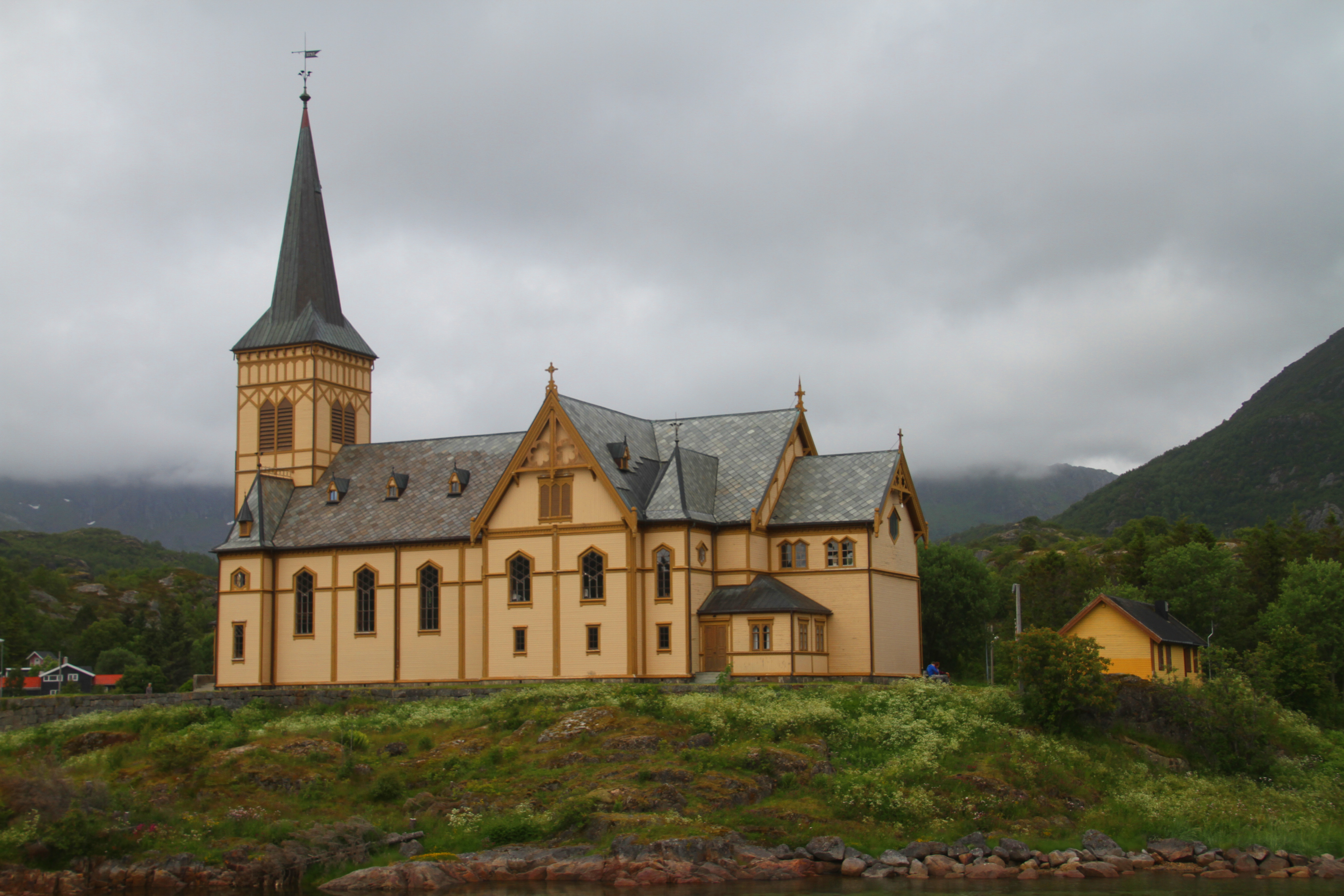 Church in Kabelvåg